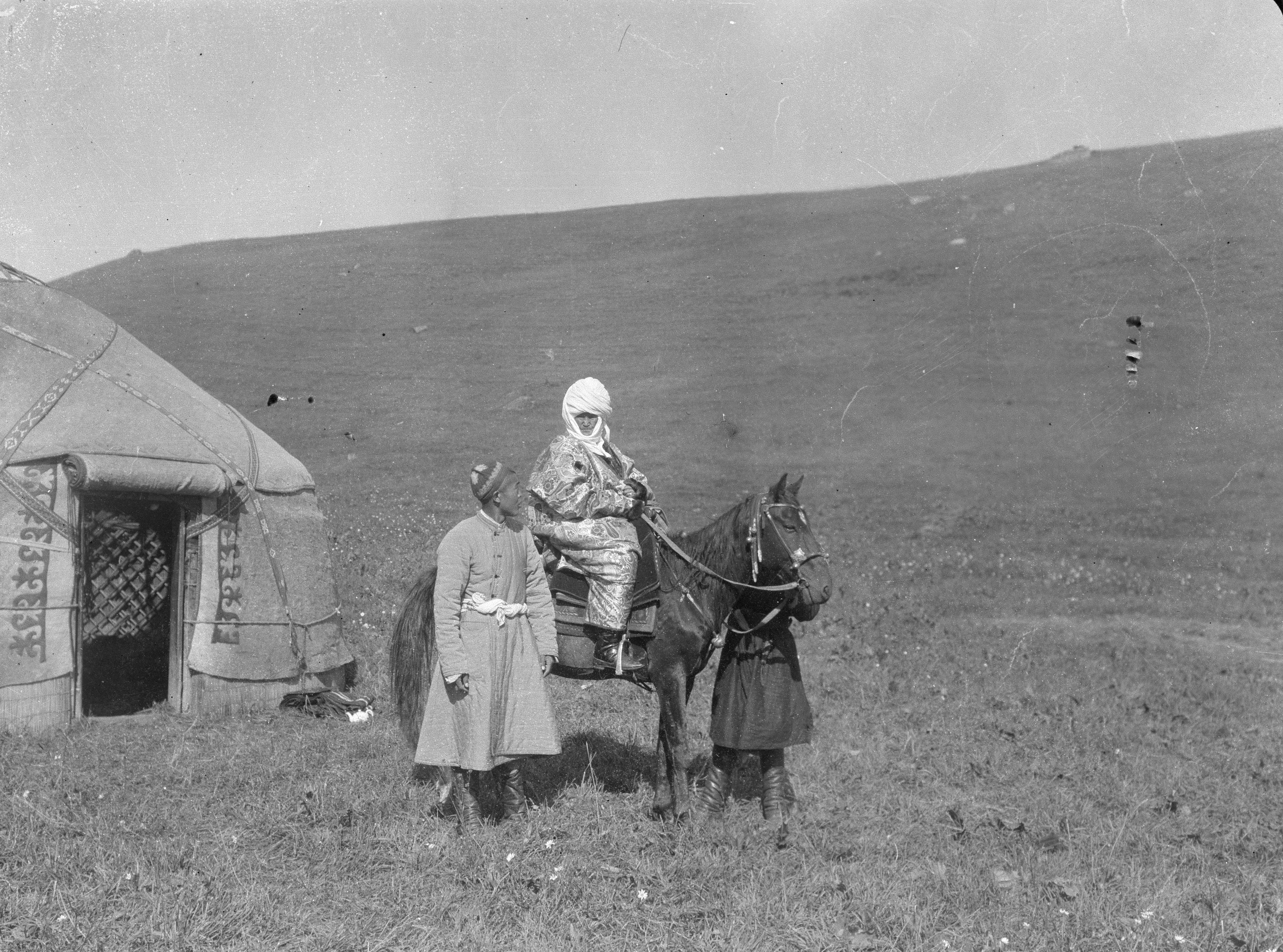 Photograph of Kurmanjan Datka sitting on a horse.